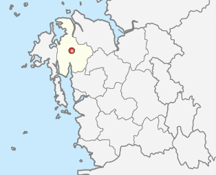 Map of Seosan in South Korea